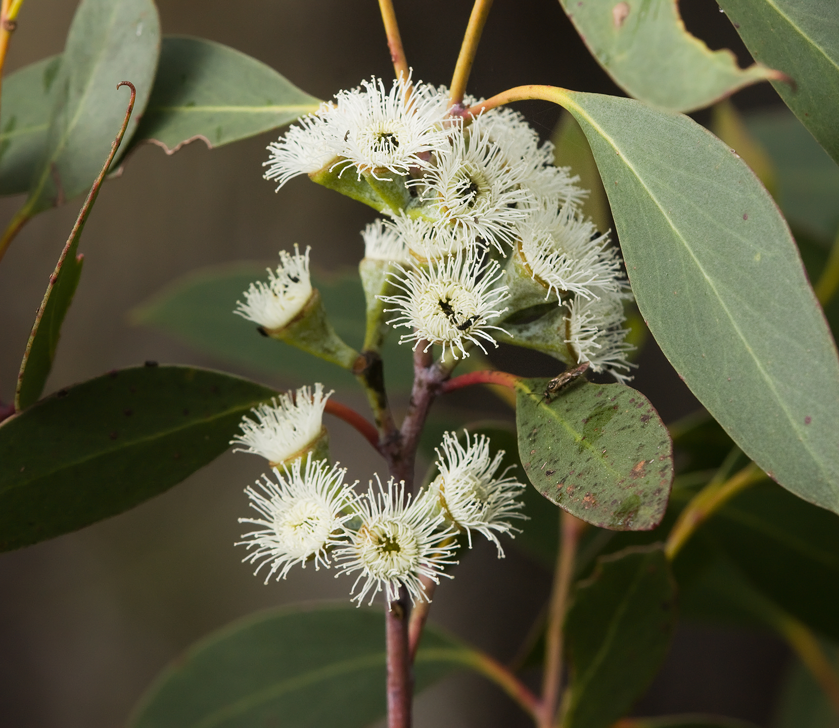 Snow Gum (Eucalyptus coccifera?), Mount Field National Park, Tasmania, Australia